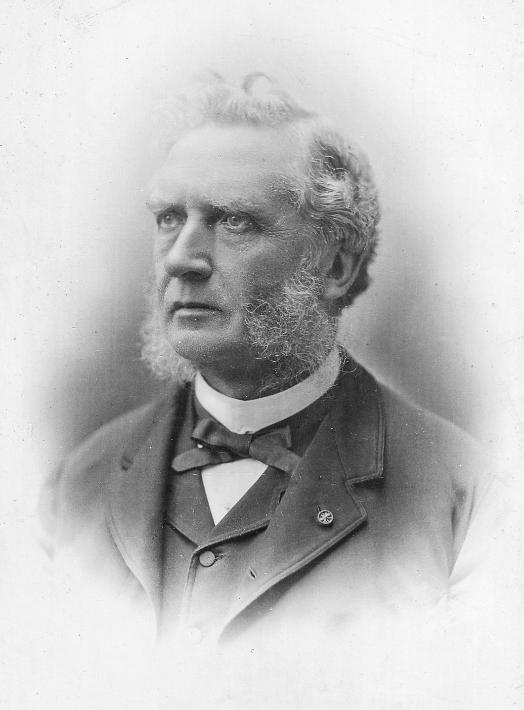 Portrait of Guillaume Delcourt (1825-1898) by photographer G. Raynaud of Antwerp